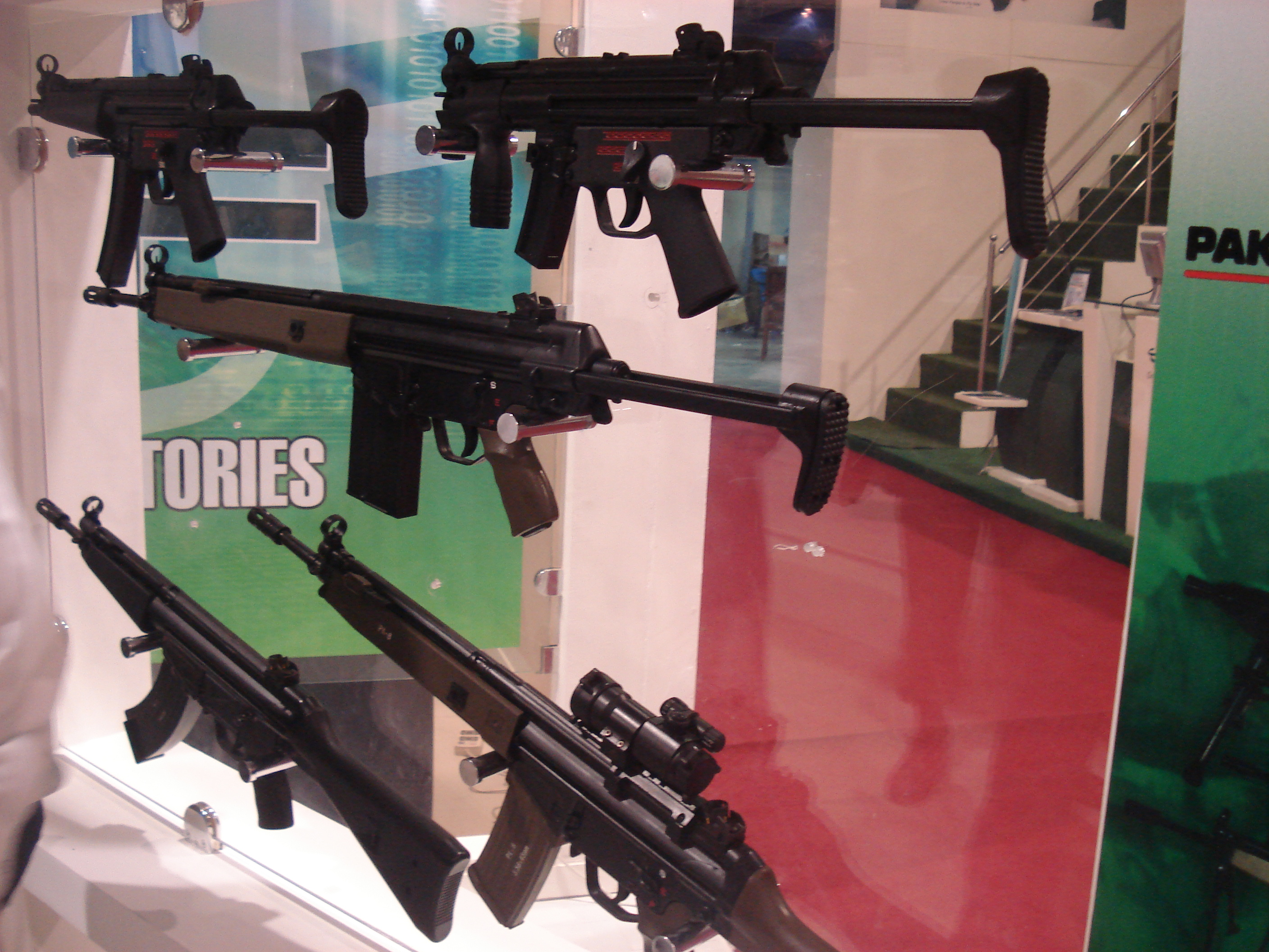 A gunnery-weapon system displayed in arm exhibition produced at Pakistan Ordnance Factories.